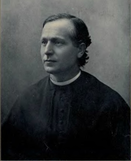 Father Andrej Hlinka, catholic priest and Slovak nationalist politician